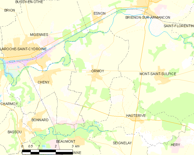 Map of French municipality Ormoy